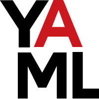 YAML logo